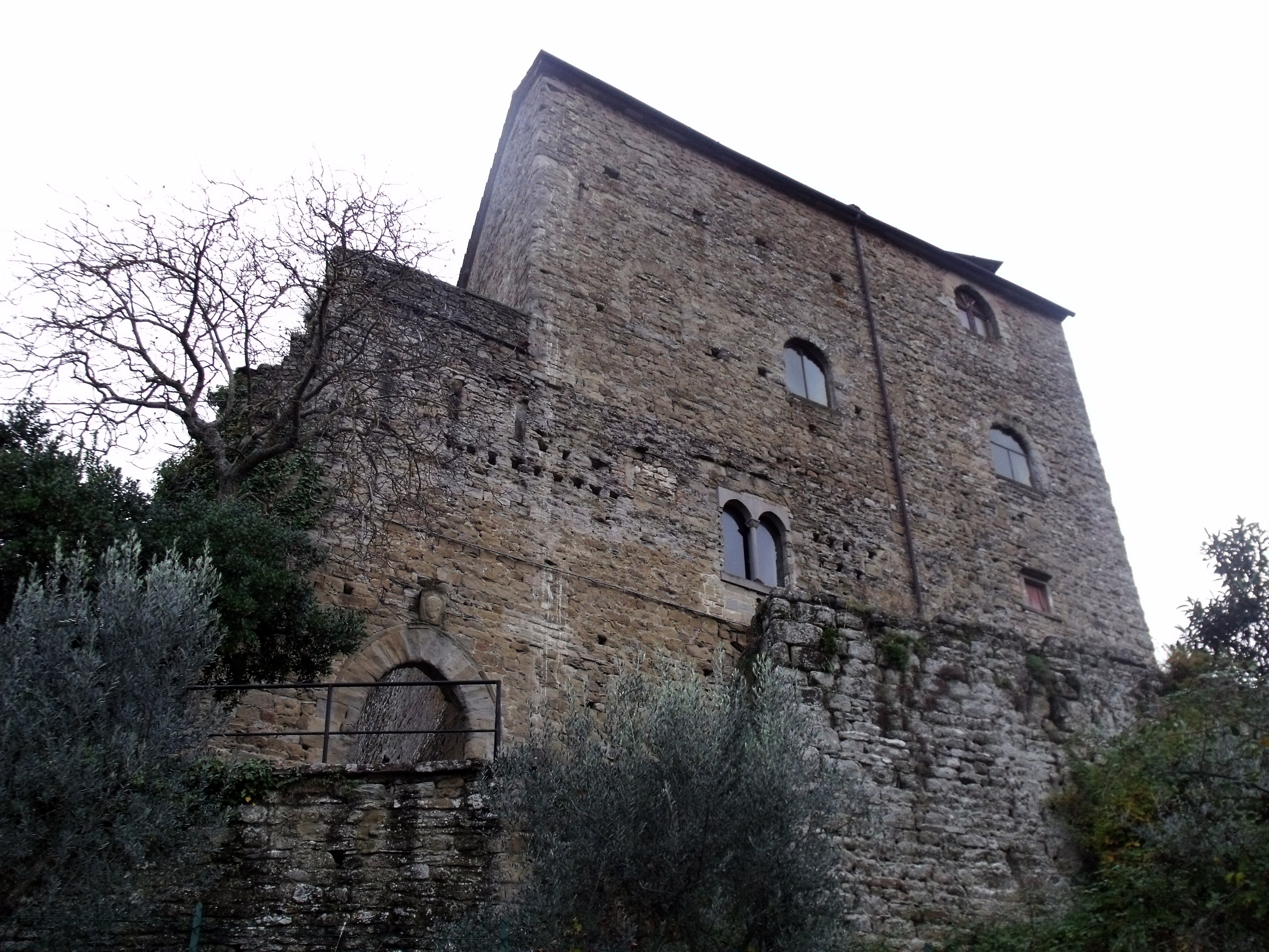 Castello in Castel San Niccolò, Province of Arezzo, Tuscany, Italy